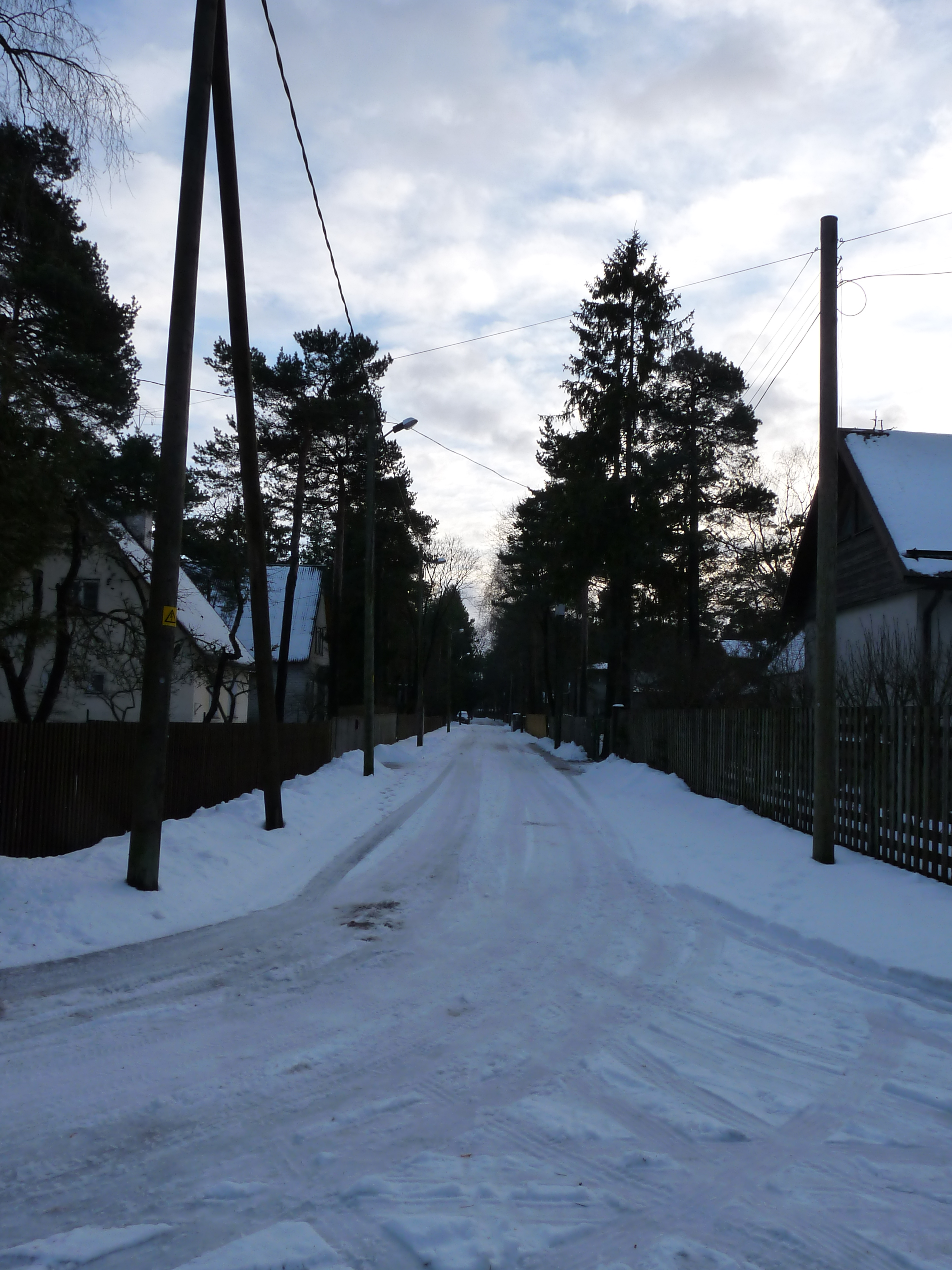 Sinilille strees in Tallinn, Estonia